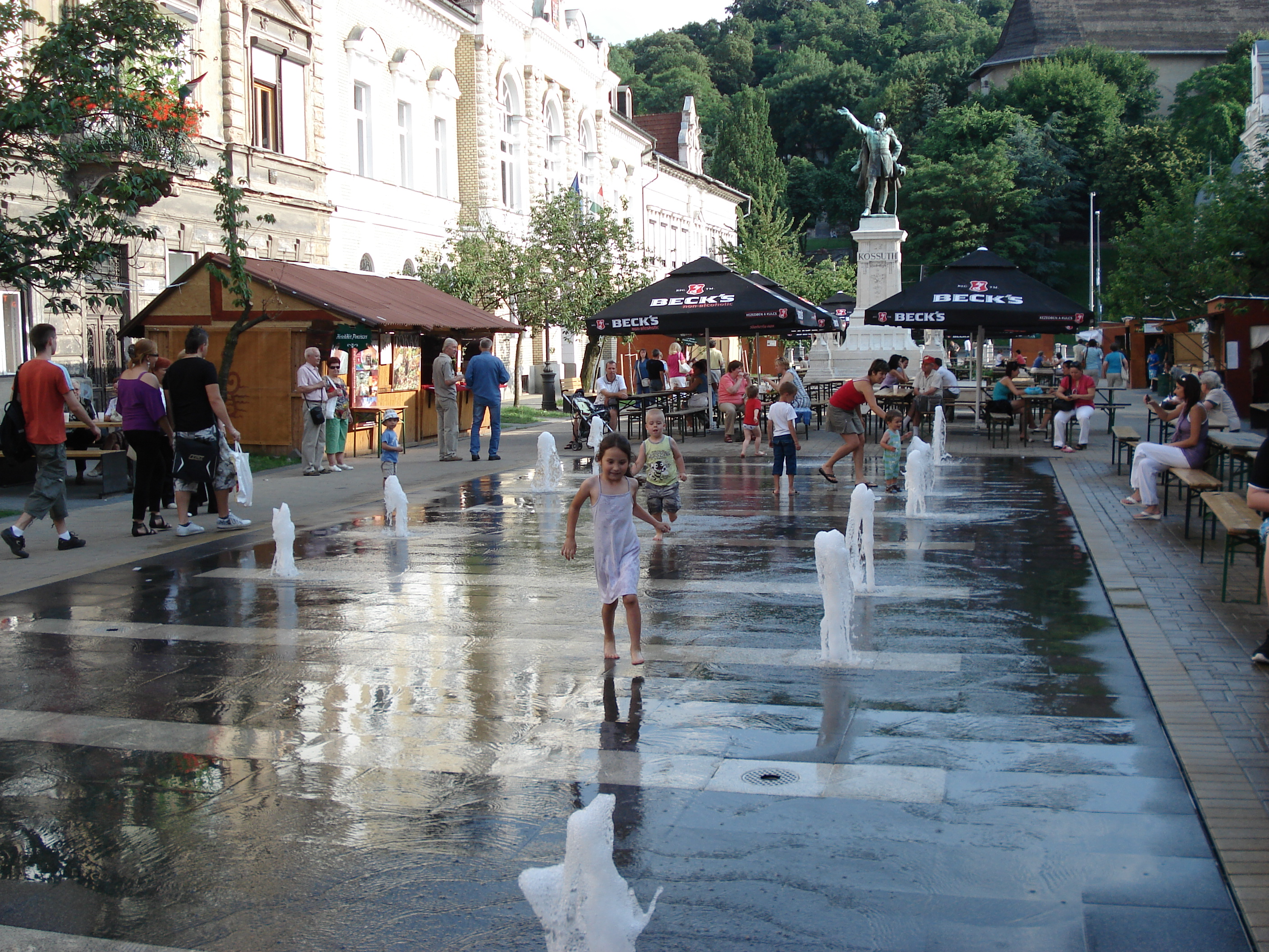 Elisabeth Square, Miskolc, 2011